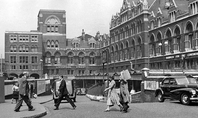 Entrance to Liverpool Street Station, in 1955. View northward from Liverpool Street, showing the awkward entry beside and below the Great Eastern Hotel (on the right) before the later major rebuilding. In those days Broad Street Station off to the left. (Note the smart clothes!)